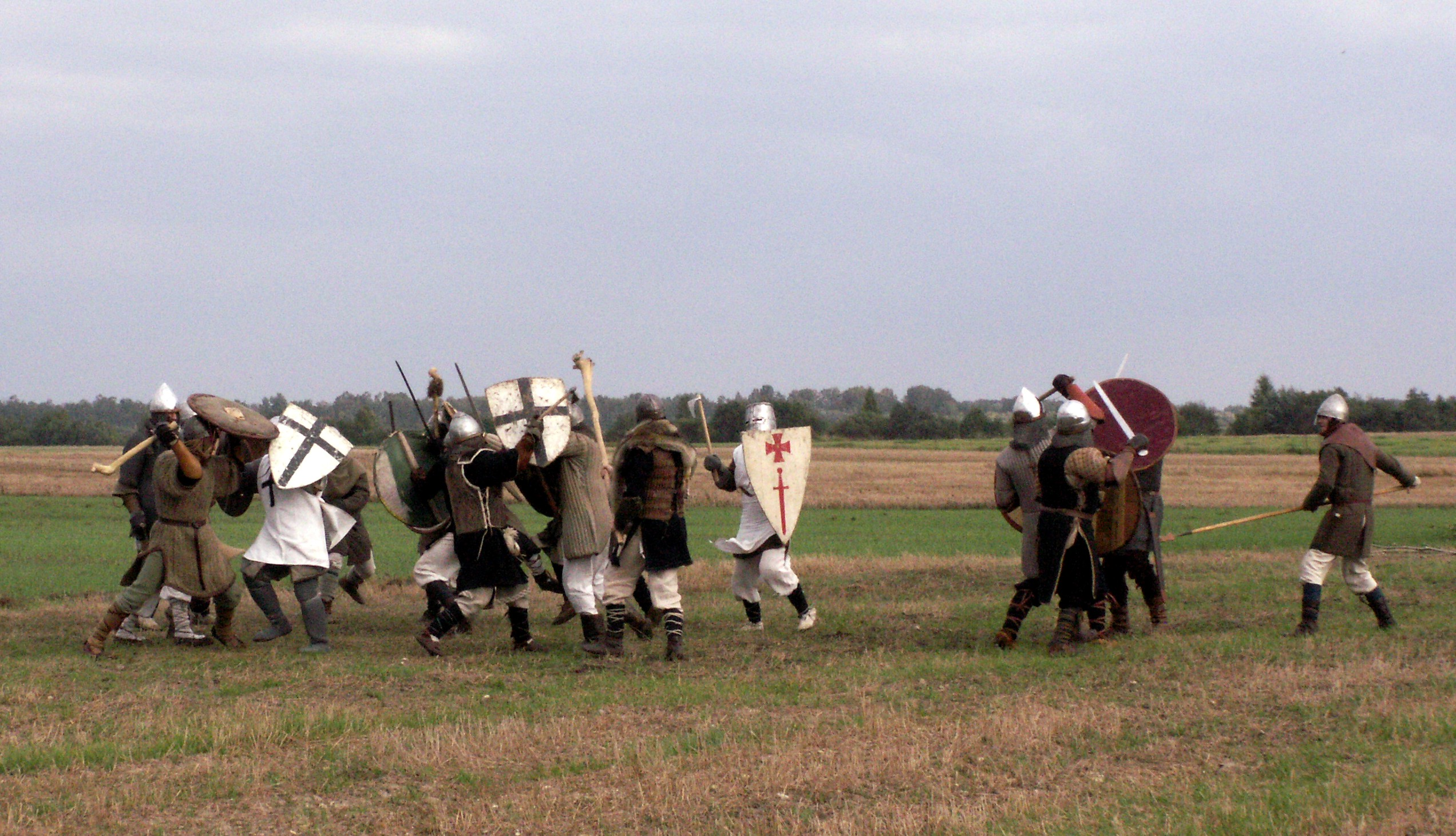 Inscenization of Battle of Saule, Jauniūnai, Joniškis district, Lithuania